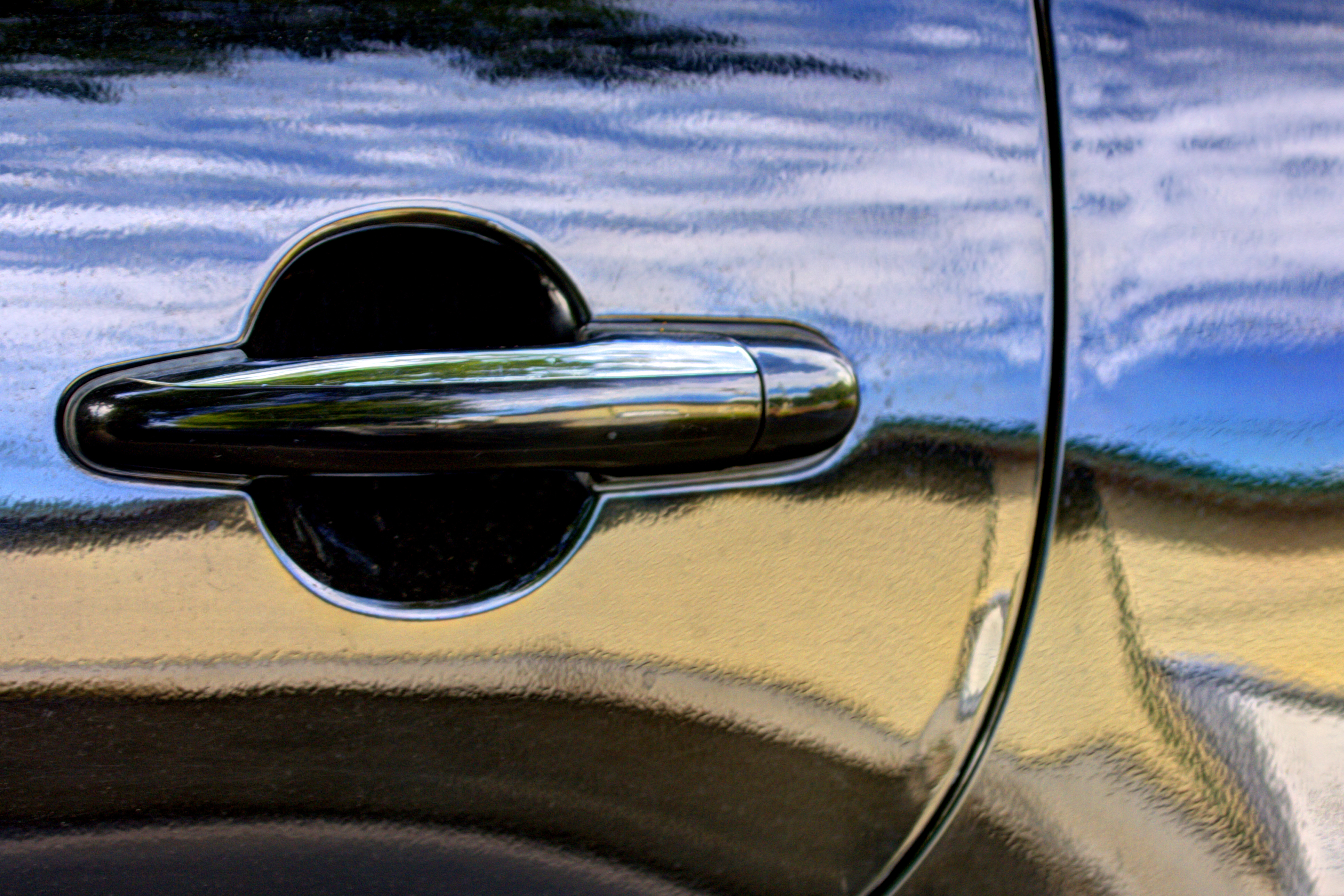 A photo of the Orange Peel effect, something that can happen to a car if it is poorly painted.